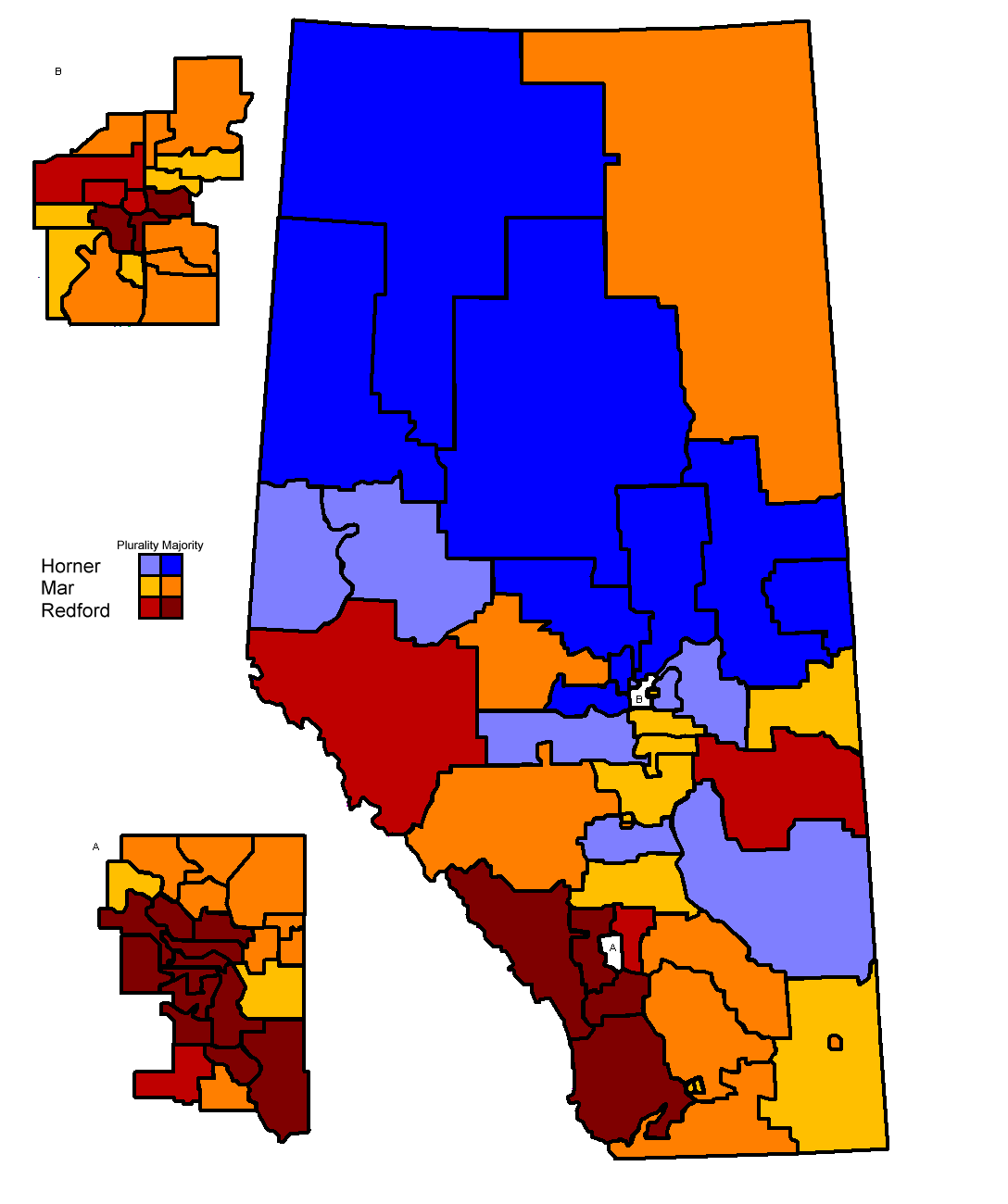 Map showing results of 2011 Alberta PC leadership race, Round 2 (October 1) Based on public domain image Alta2004.PNG by Earl Andrew